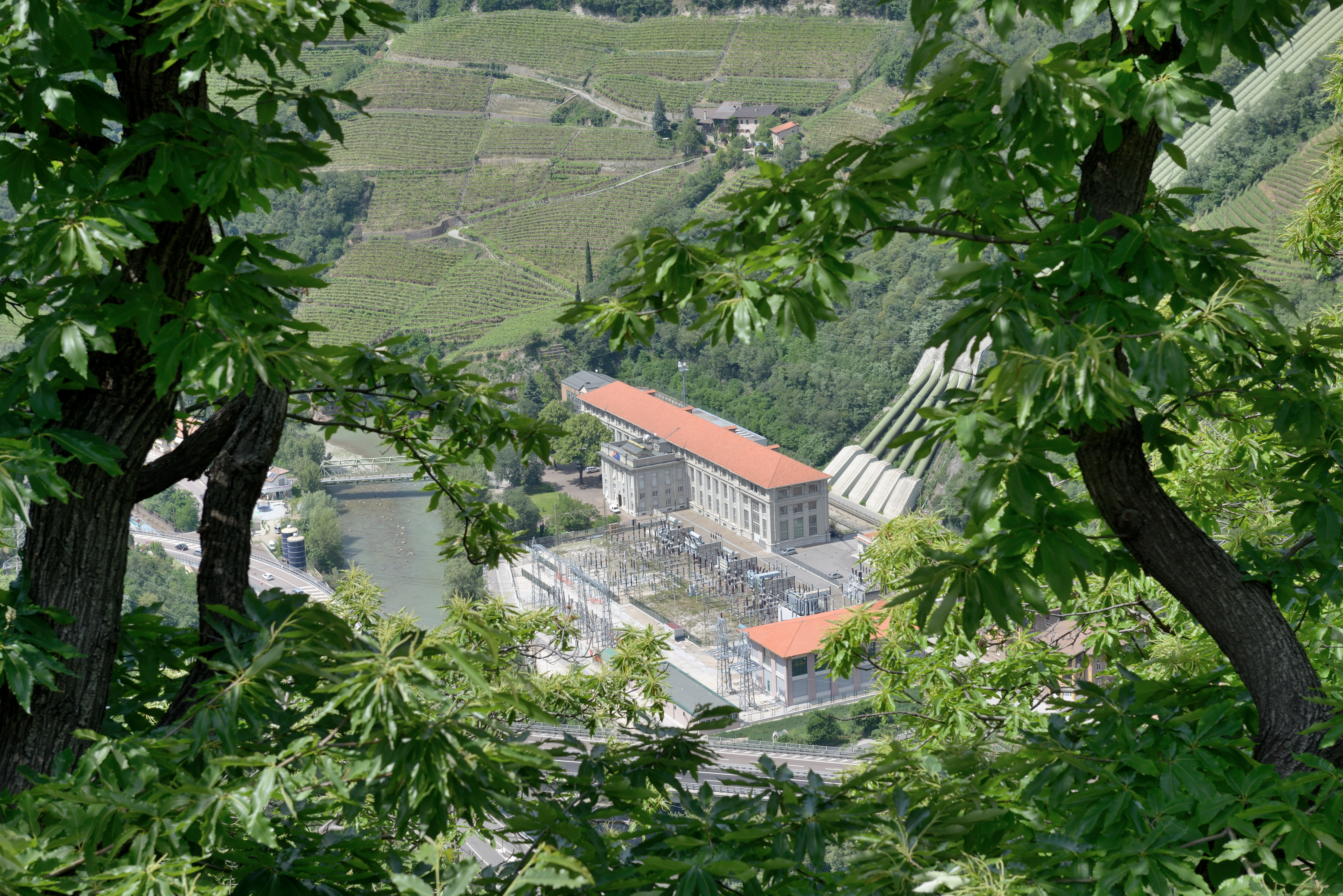 Hydroelectric power station in Kardaun, South Tyrol - view from above